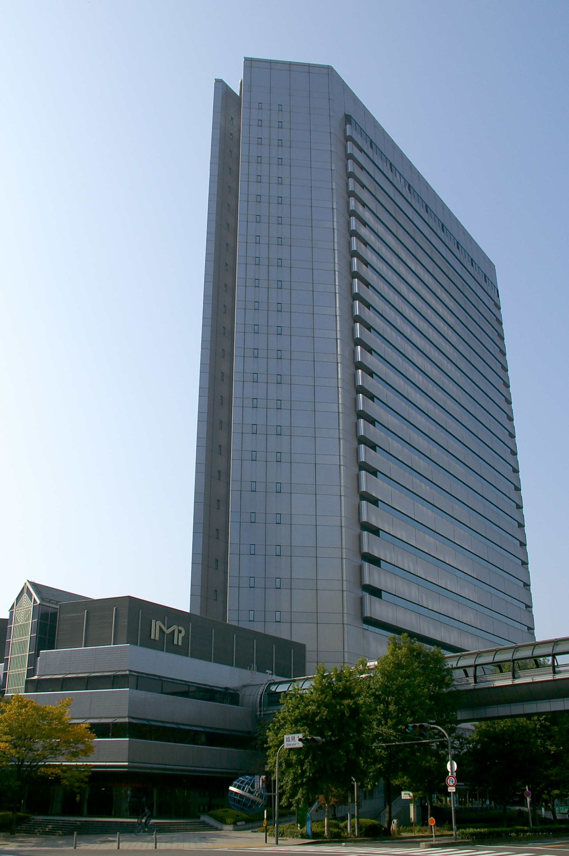 Photograph of Matsushita IMP Building, a part of Osaka Business Park, in Chuo-ku, Osaka, Osaka Prefecture, Japan.